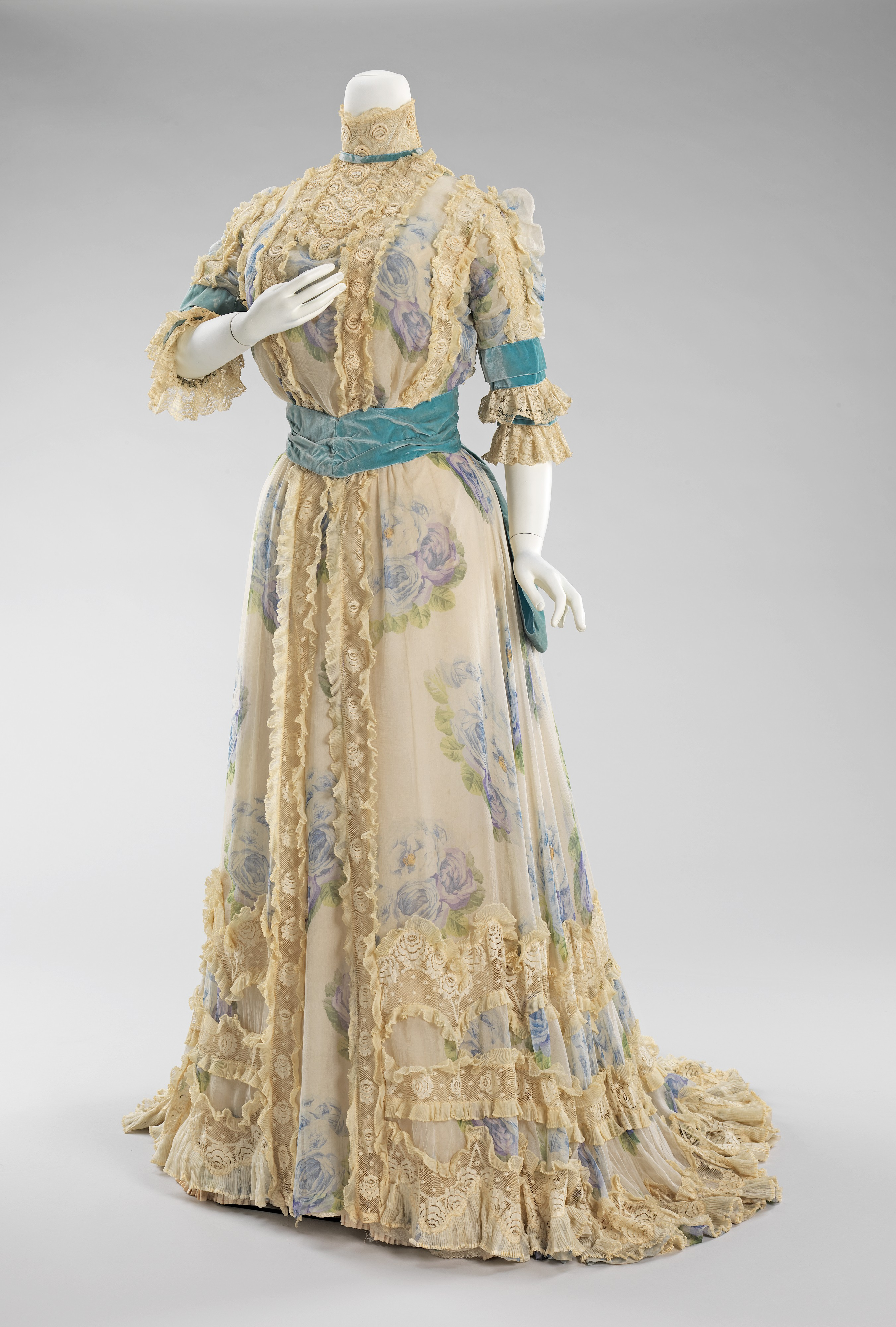 French; Afternoon dress